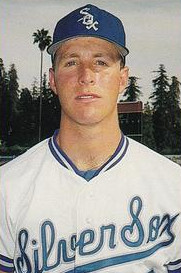 Professional baseball player Dave Liddell